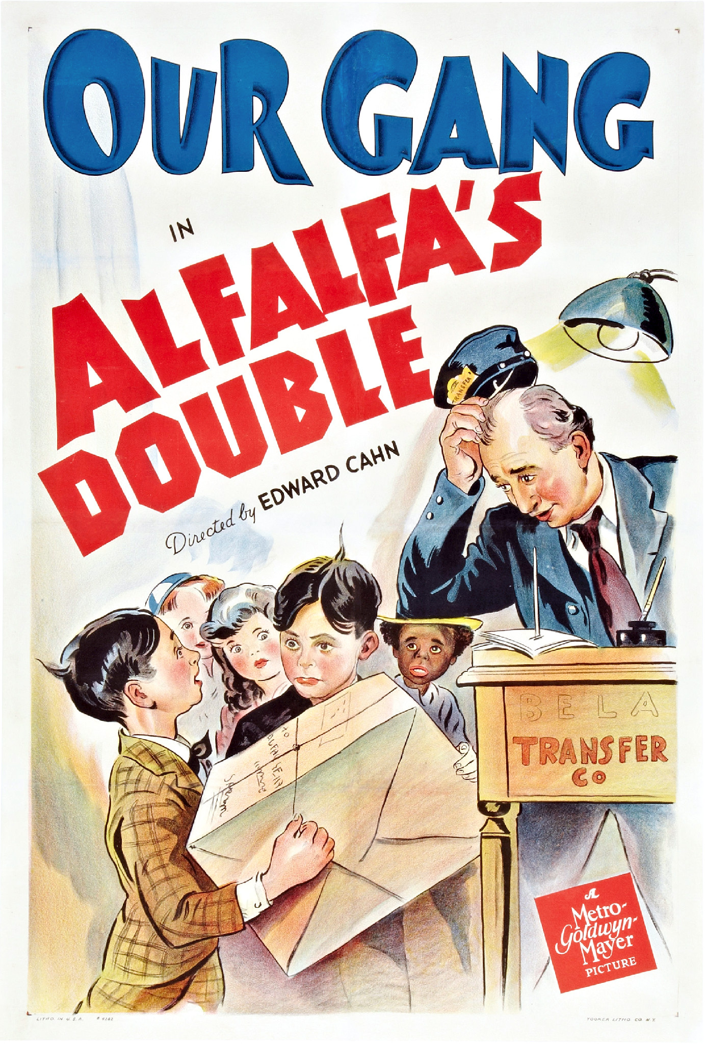 Poster for the 1940 Our Gang film Alfalfa's Double. The item has no copyright markings on it as can be seen in the links above. At lower left is Litho in USA #4282. At lower right is Tooker Litho Co., NY-they printed the poster.